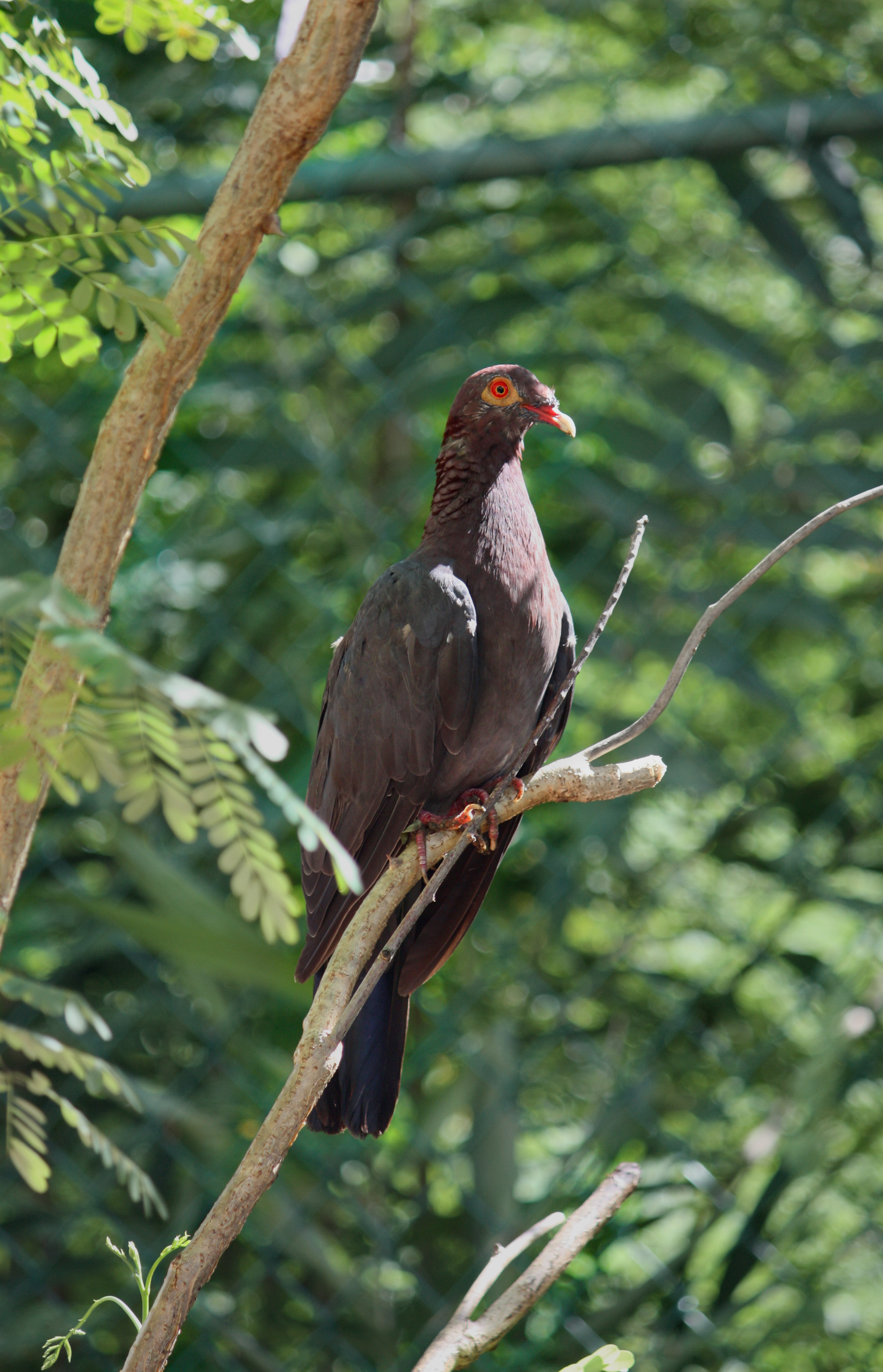 Scaly-naped Pigeon (Patagioenas squamosa). Rockley, Christ Church, Barbados.